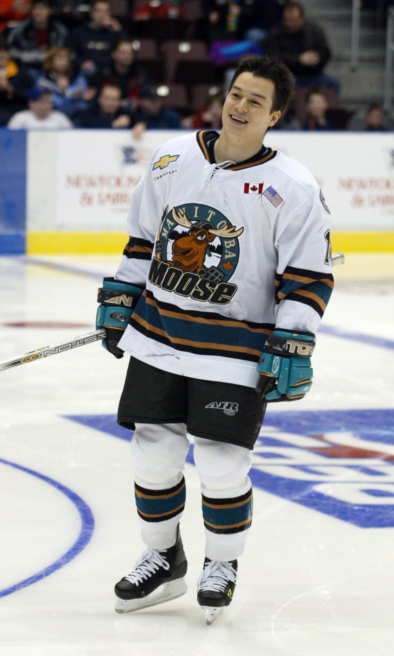 Photo: James Baker/AHL